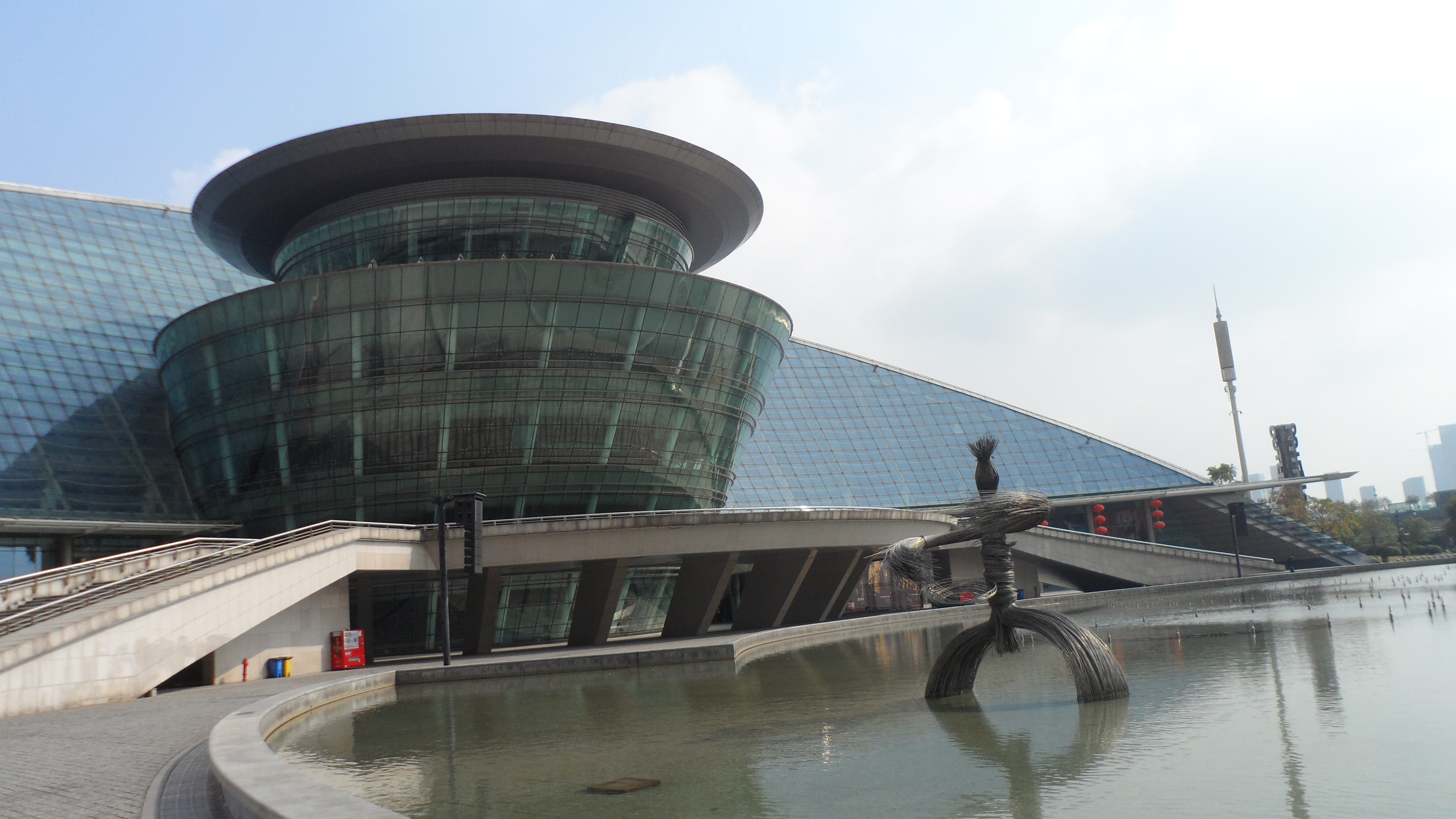 Hangzhou Grand Theatre, Zhejiang